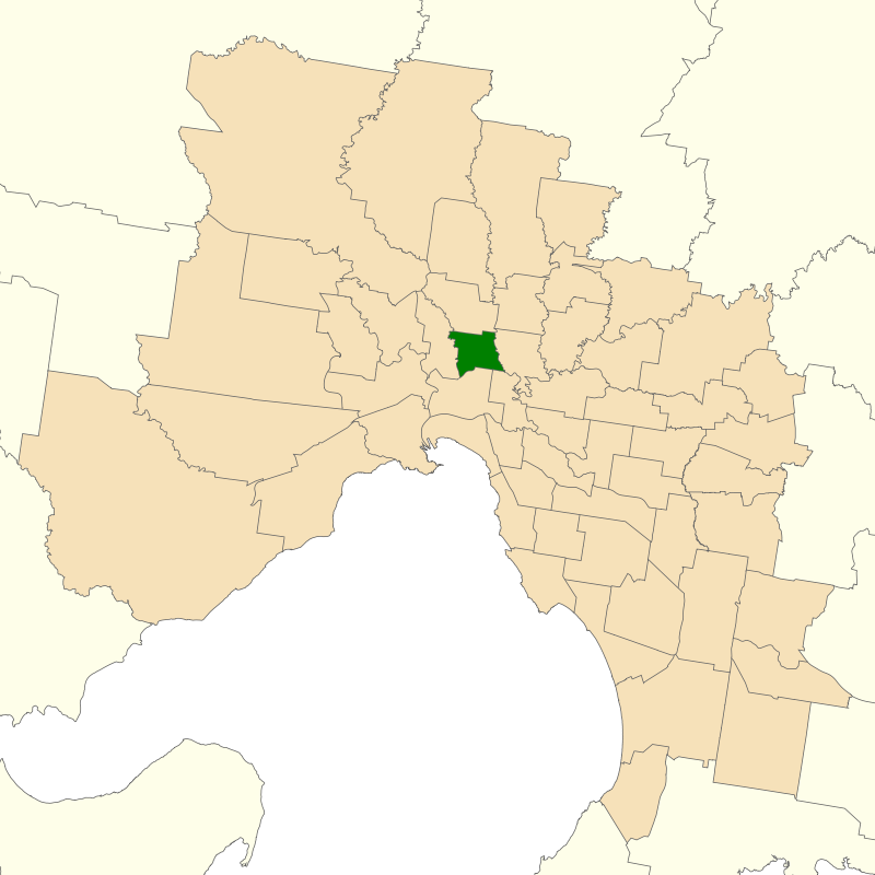 Location of the Victorian electoral district of Brunswick (dark green) in the Greater Melbourne area.